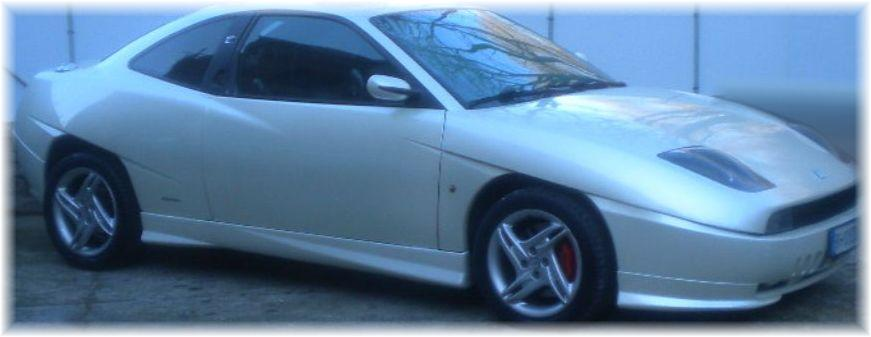 Fiat Coupe Bianco Perla